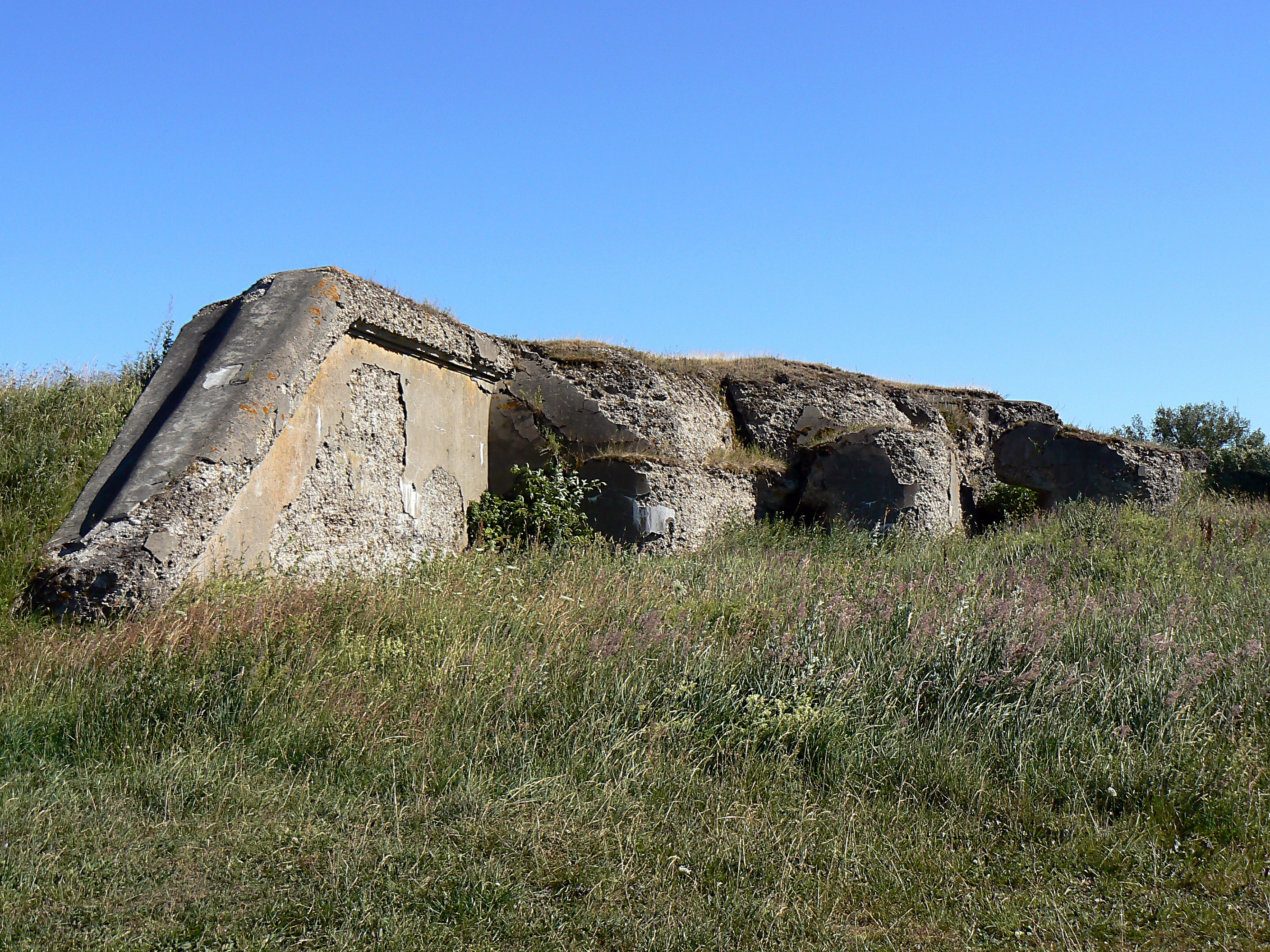 Liepaja fortress ruins. Image shows lunette. Most of buildings are concentrated in Karosta.